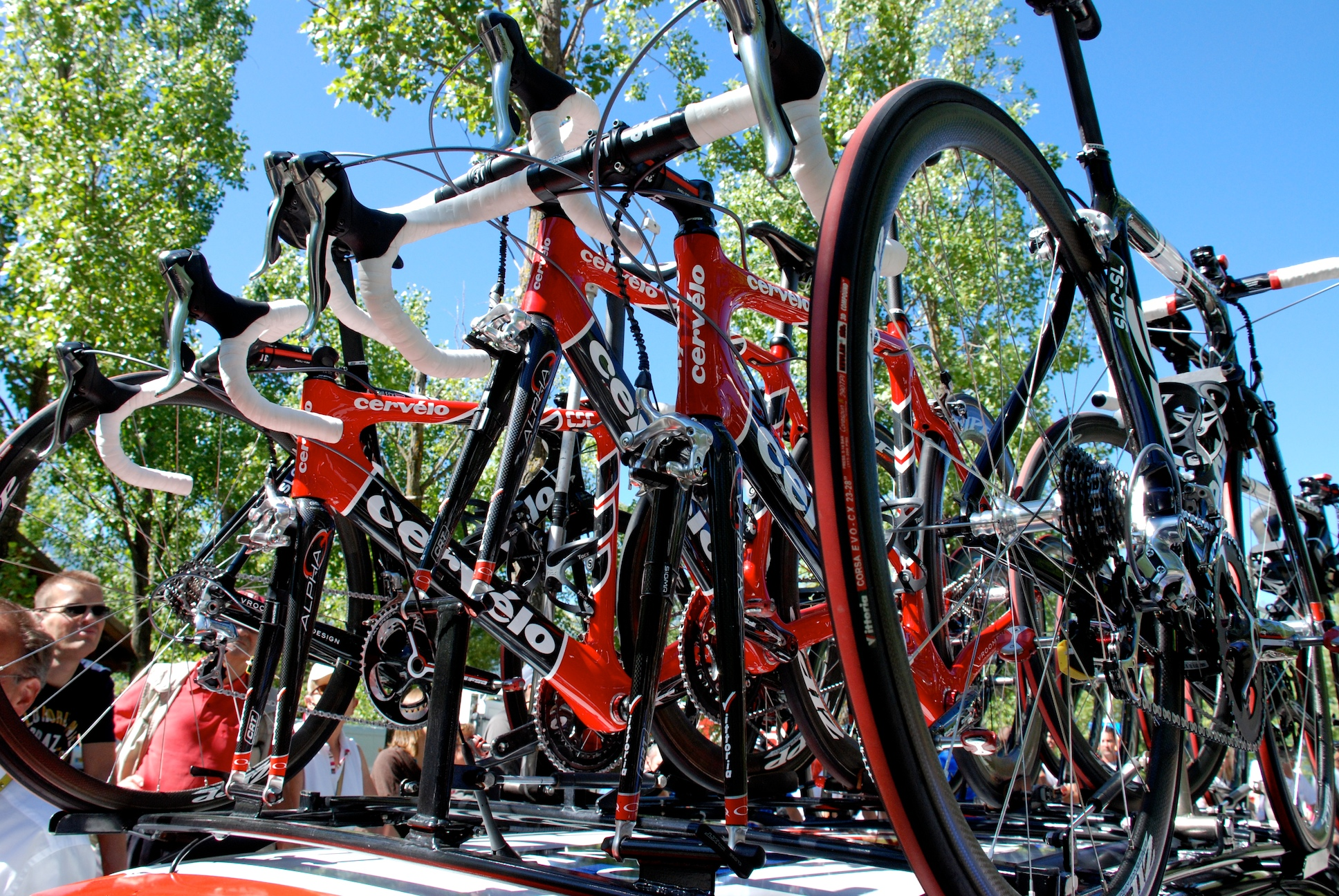 Cervélo bicycles on top of a Team CSC service car during Tour de France 2008